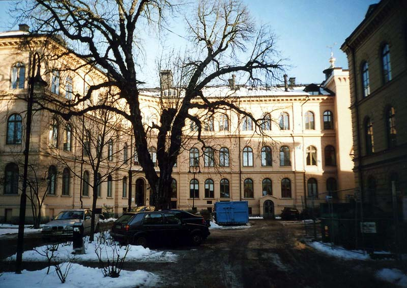 City of Stockholm administrative office buildings (originally Caroline Institute), as released by image creator RistessonPlace: Stockholm, Sweden